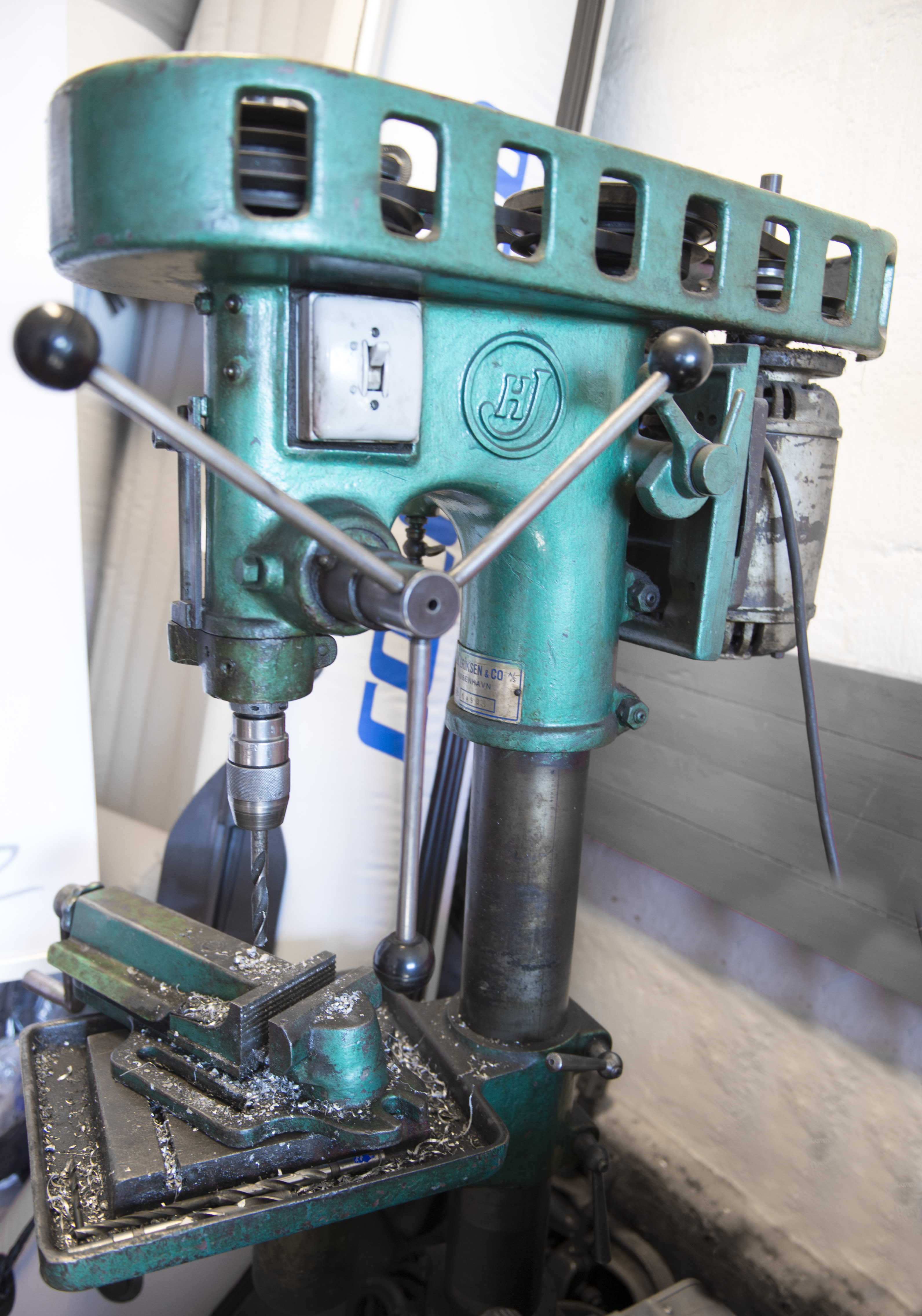 drill engine (hj ?)